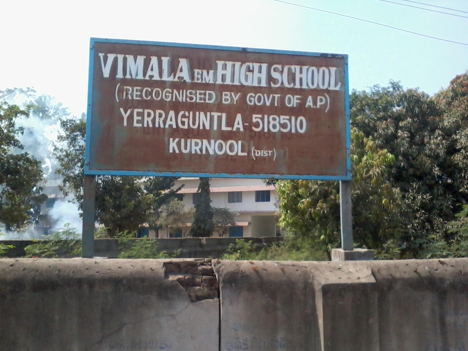 VIMALA ENGLISH MEDIUM HIGH SCHOOL IN YERRAGUNTLA,KURNOOL DISTRICT